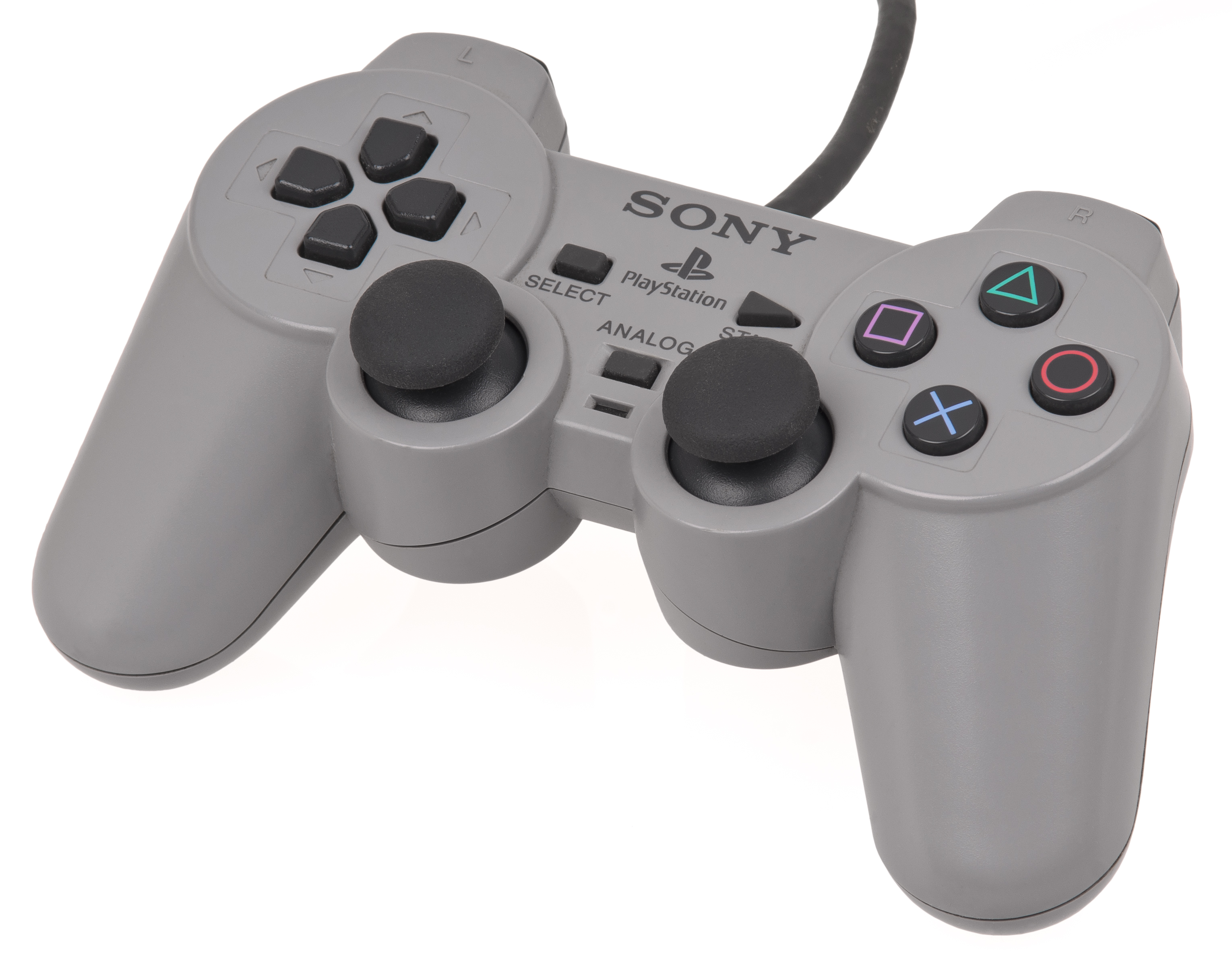 An original Sony PlayStation DualShock controller for the PlayStation video game console. This became the standard pack-in controller after its introduction, and replaced the non-analog controller.